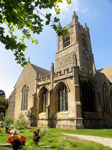 St Michael and All Angel: Lambourn. This square is a mixture of the village of Lambourn and farmland. This church is in the northern section of the square.